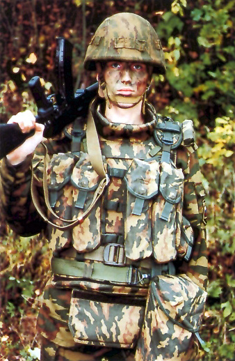 I took this with the soldier's permission.